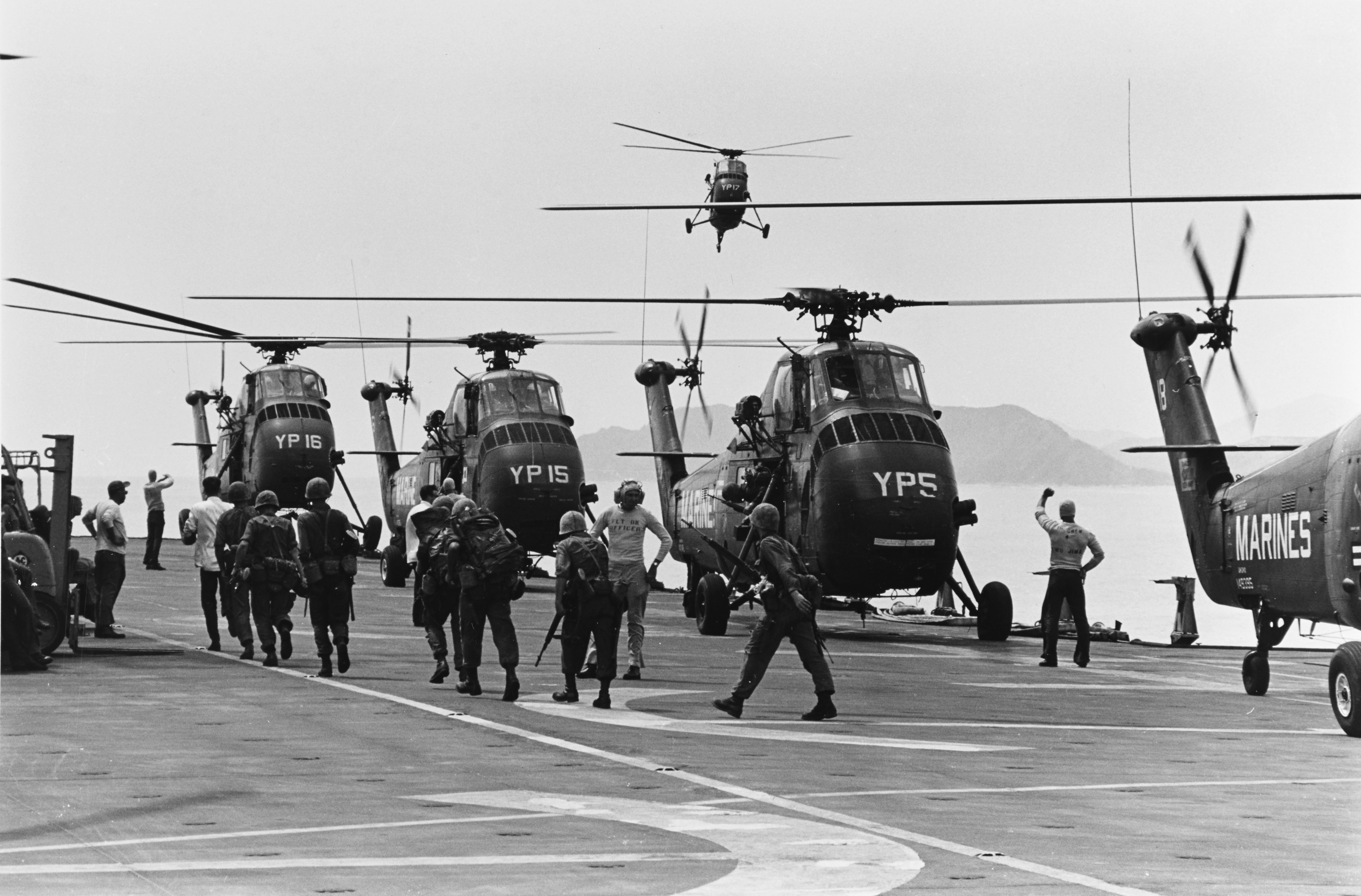 View of the flight deck of the U.S. Navy amphibious assault ship USS Iwo Jima (LPH-2) with combat equipped U.S. Marines boarding Sikorsky UH-34D Seahorse helicopters of Marine Medium Helicopter Transport Squadron 163 (HMM-163) "Ridge Runners" for a landing at Vung Mu, Vietnam, during operation Dagger Thrust, December 1965.